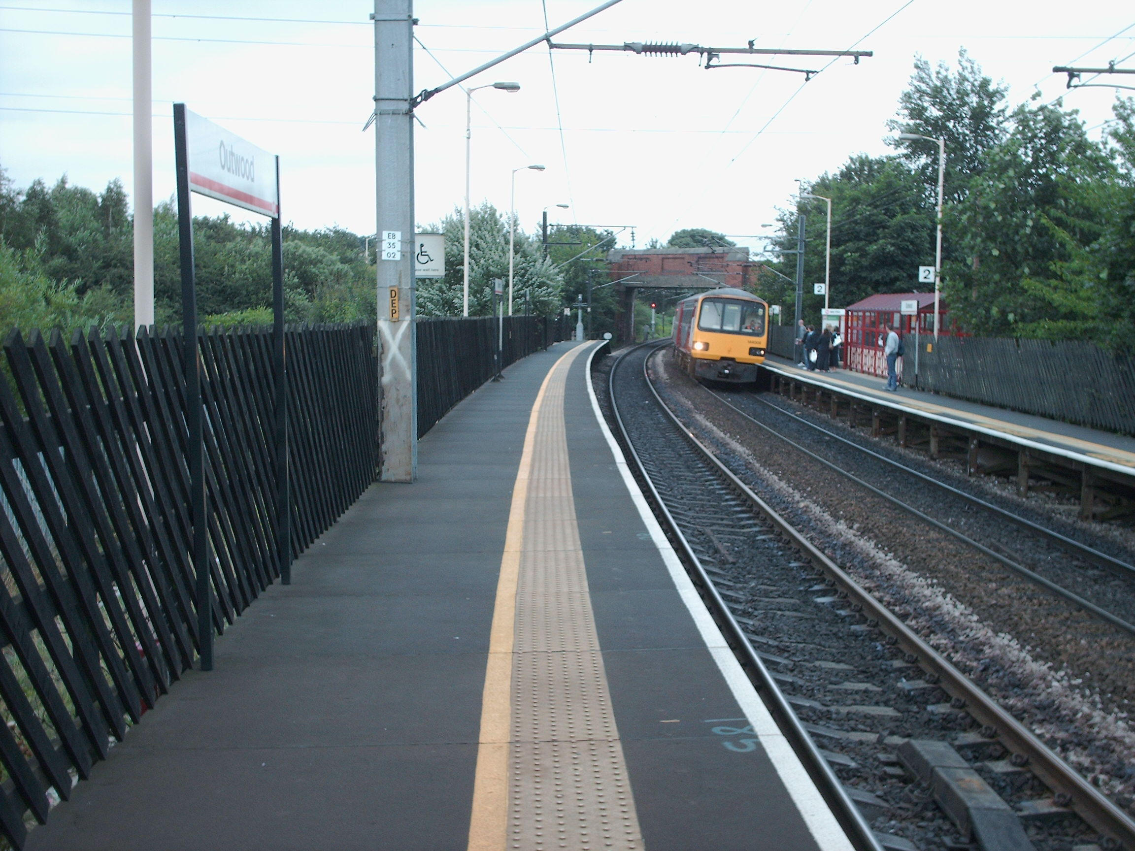 Outwood railway station, West Yorkshire, England. 144009 arrives at platform 2.